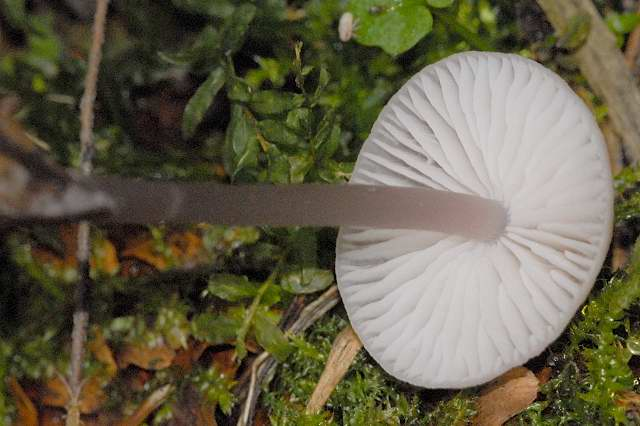 Mycena spec. from Commanster, Belgian High Ardennes. The determination of the species shown in this picture has been verified.